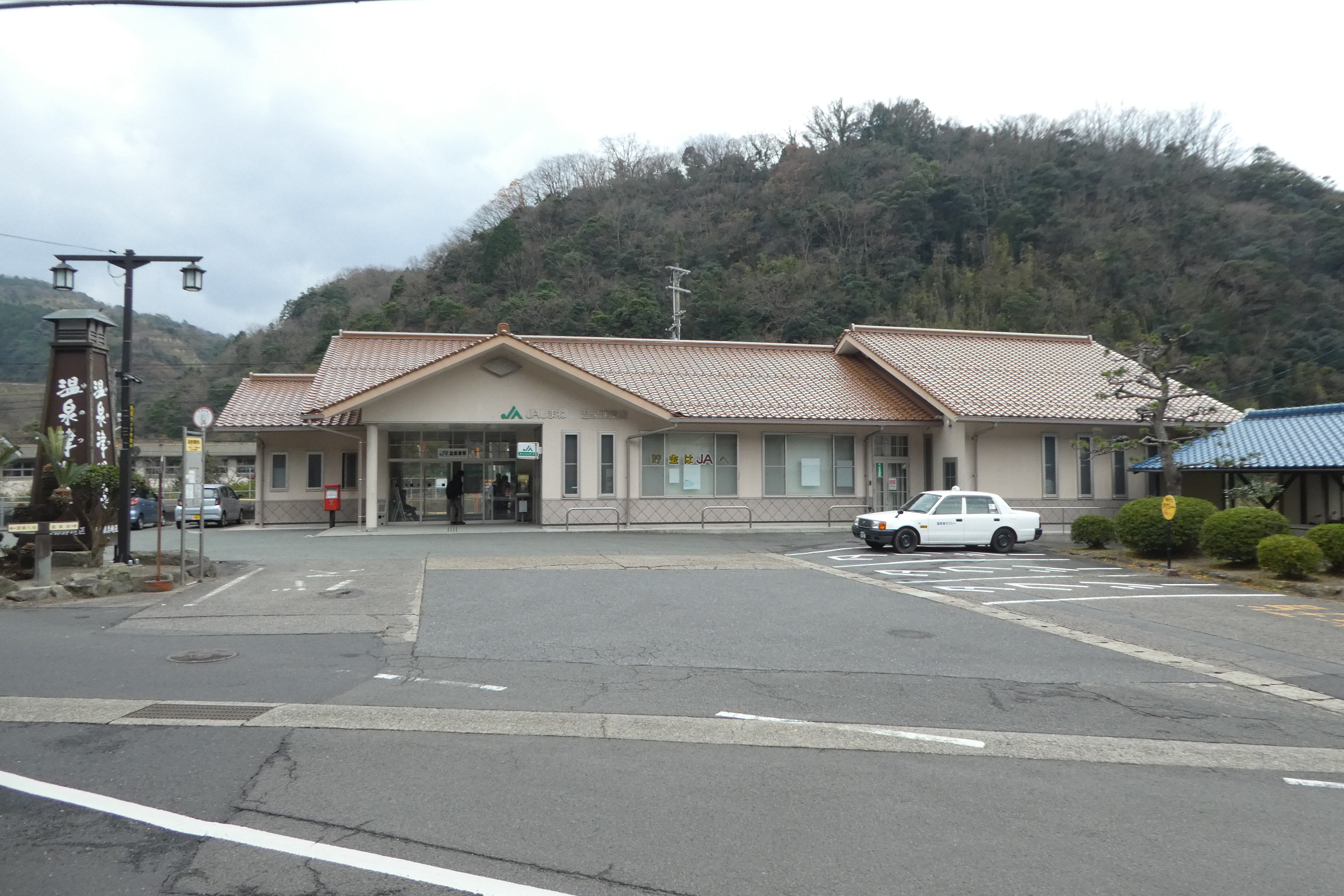 Yunotsu Station on the Sanin Main Line